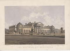 Holford House, Regents Park